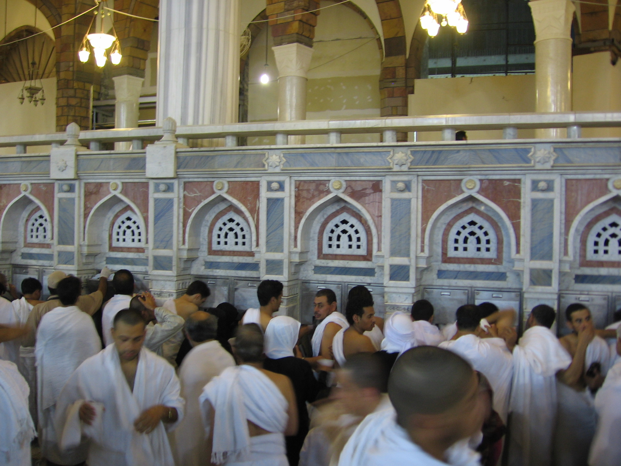 Zamzam Well in mecca Saudi Arabia